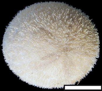 Picture of Echinolampas depressa